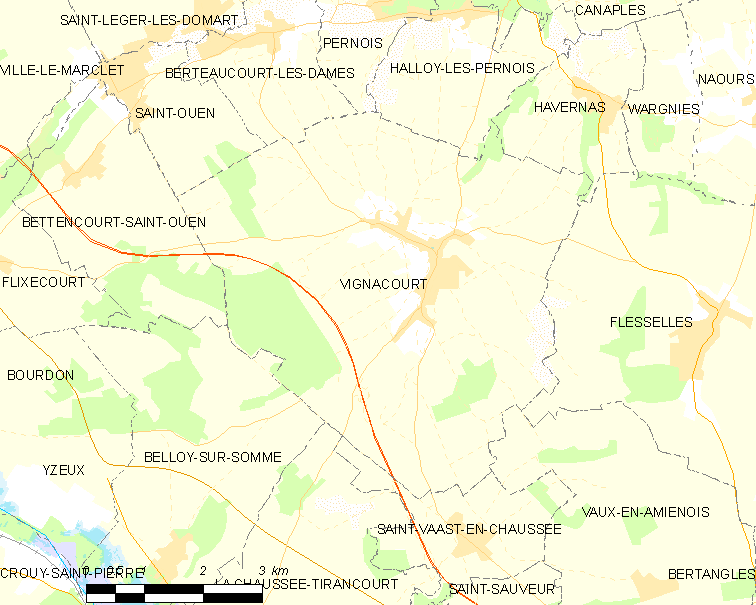 Map of French municipality Vignacourt